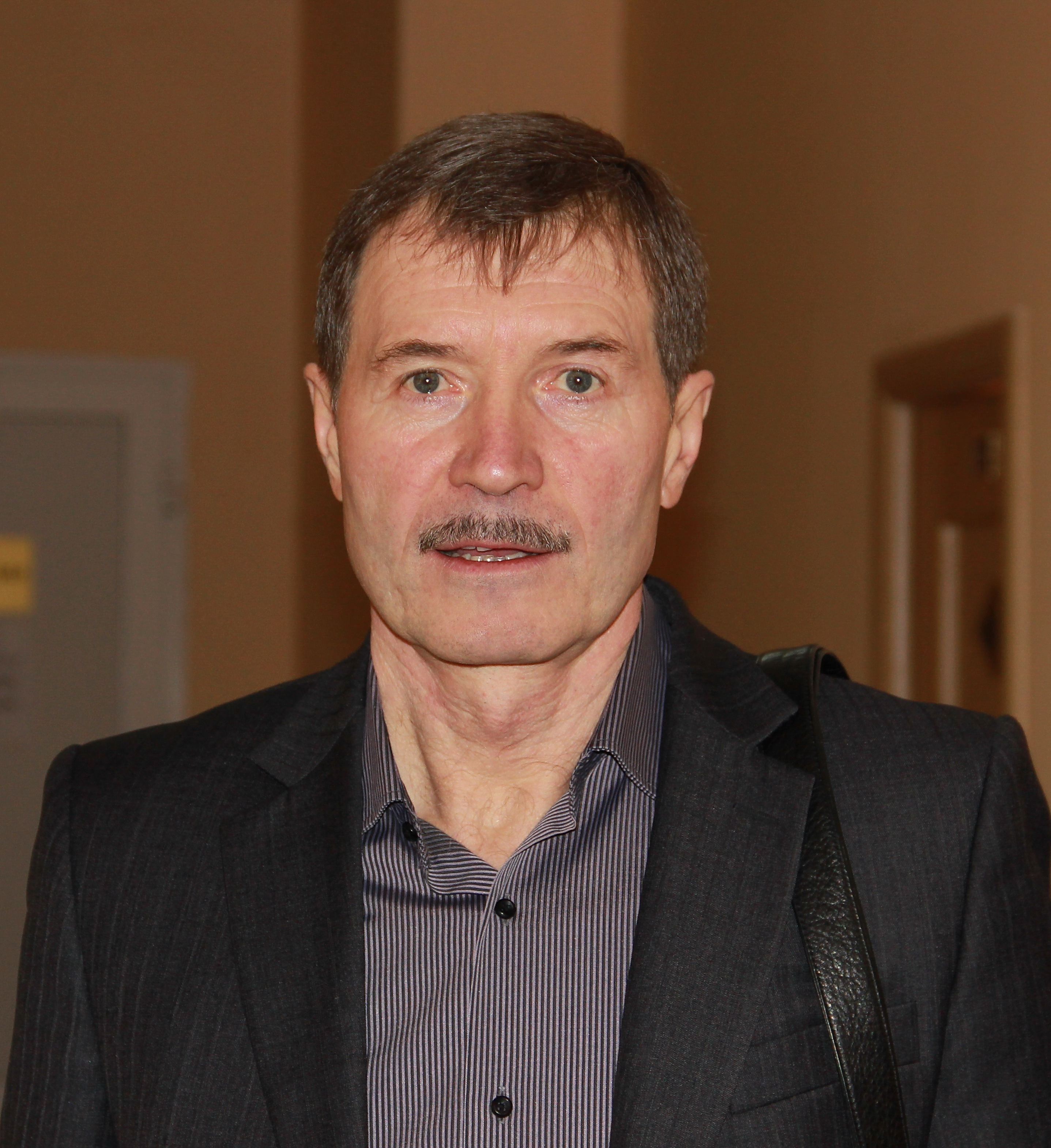 Russia, Vologda, Head coach of women's basketball team Russia Boris Sokolovsky visit match teams «Chevakata» (Vologda) vs «Dynamo» (Kursk)